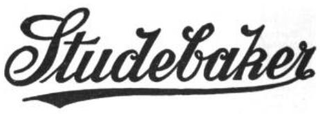 Studebaker - logo - 1917